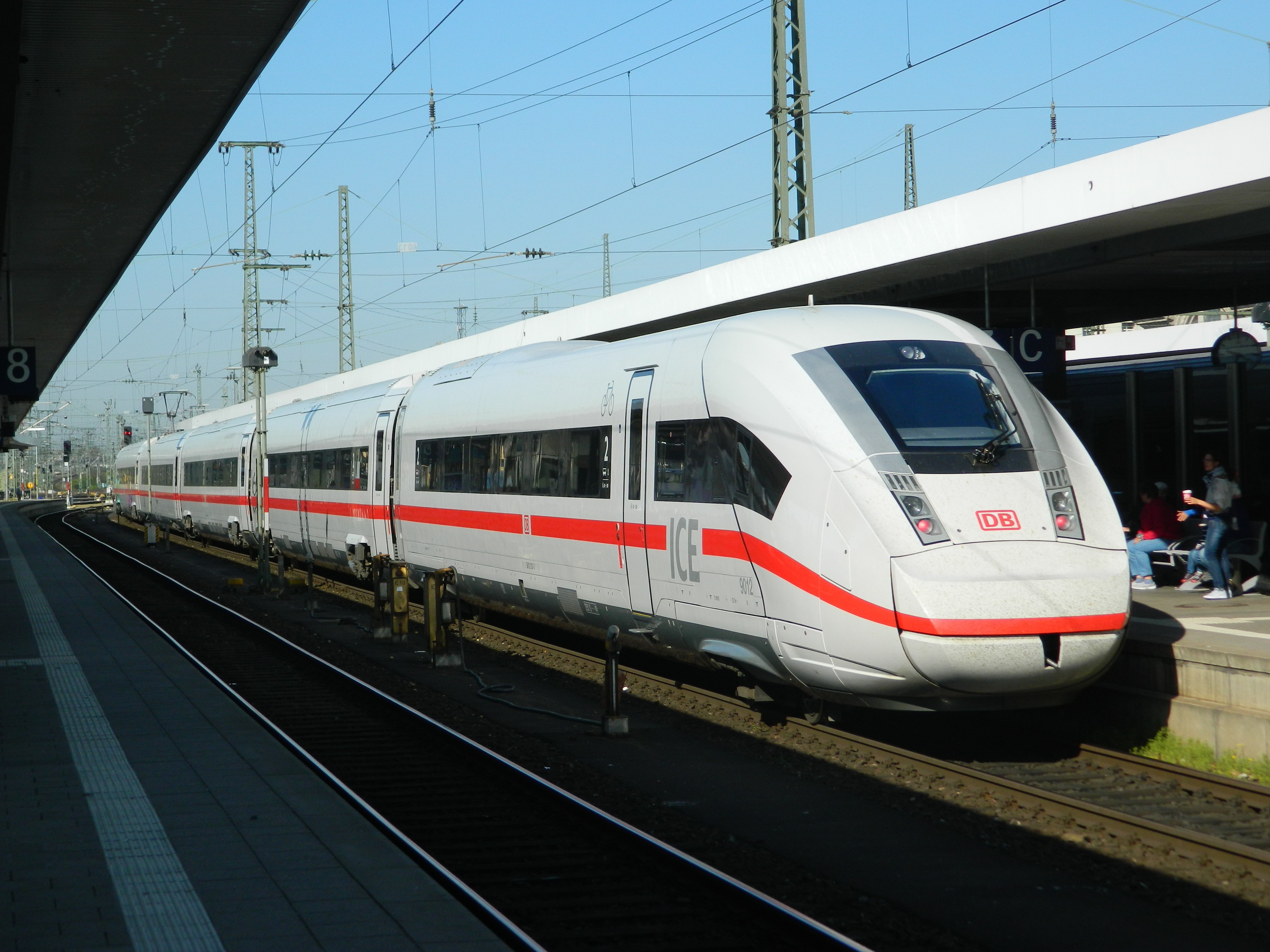 The ICE 4 unit number 9012 at Nuremberg Hbf, working the ICE 882 service from Munich Hbf to Hamburg-Altona.